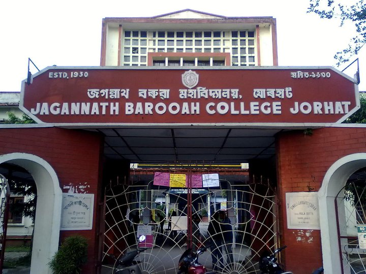 Jorhat